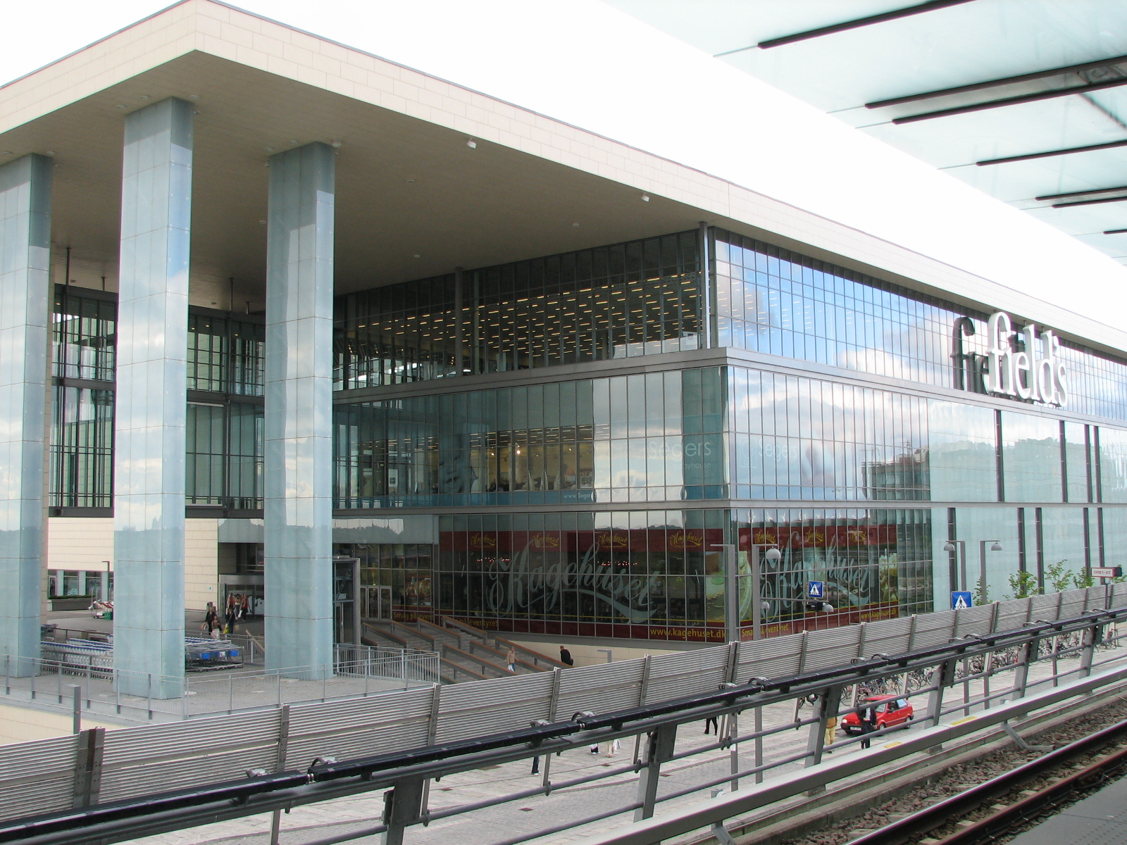 Field's, seeen from the Metrostation Ørestad